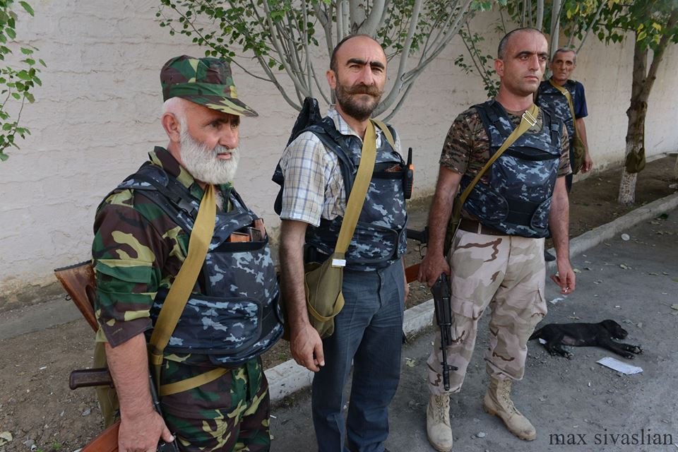 Members of armed group Sasna Tsrer during the failed armed uprising in a Yerevan police station (2016)